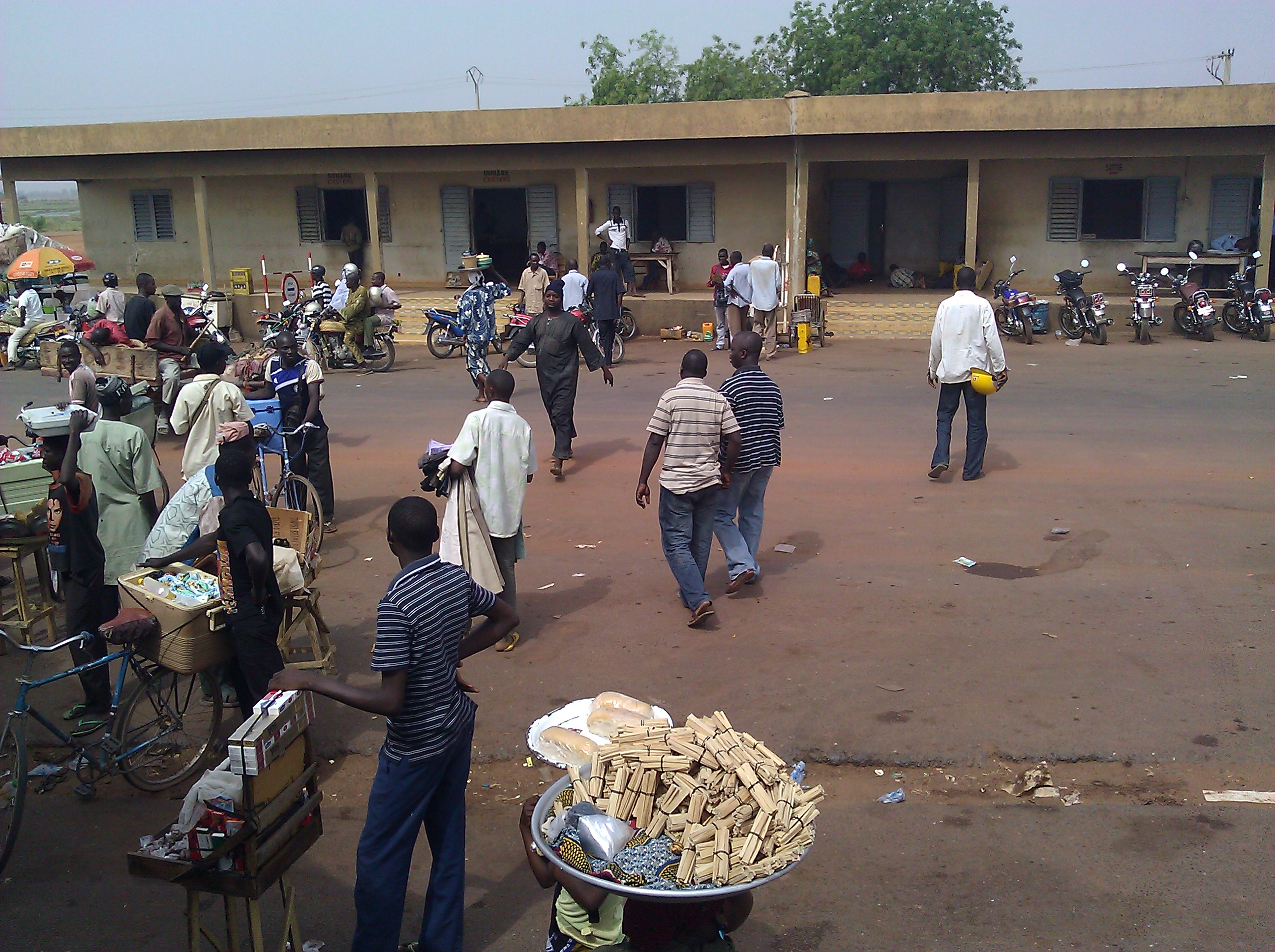 The border crossing into Benin from Niger